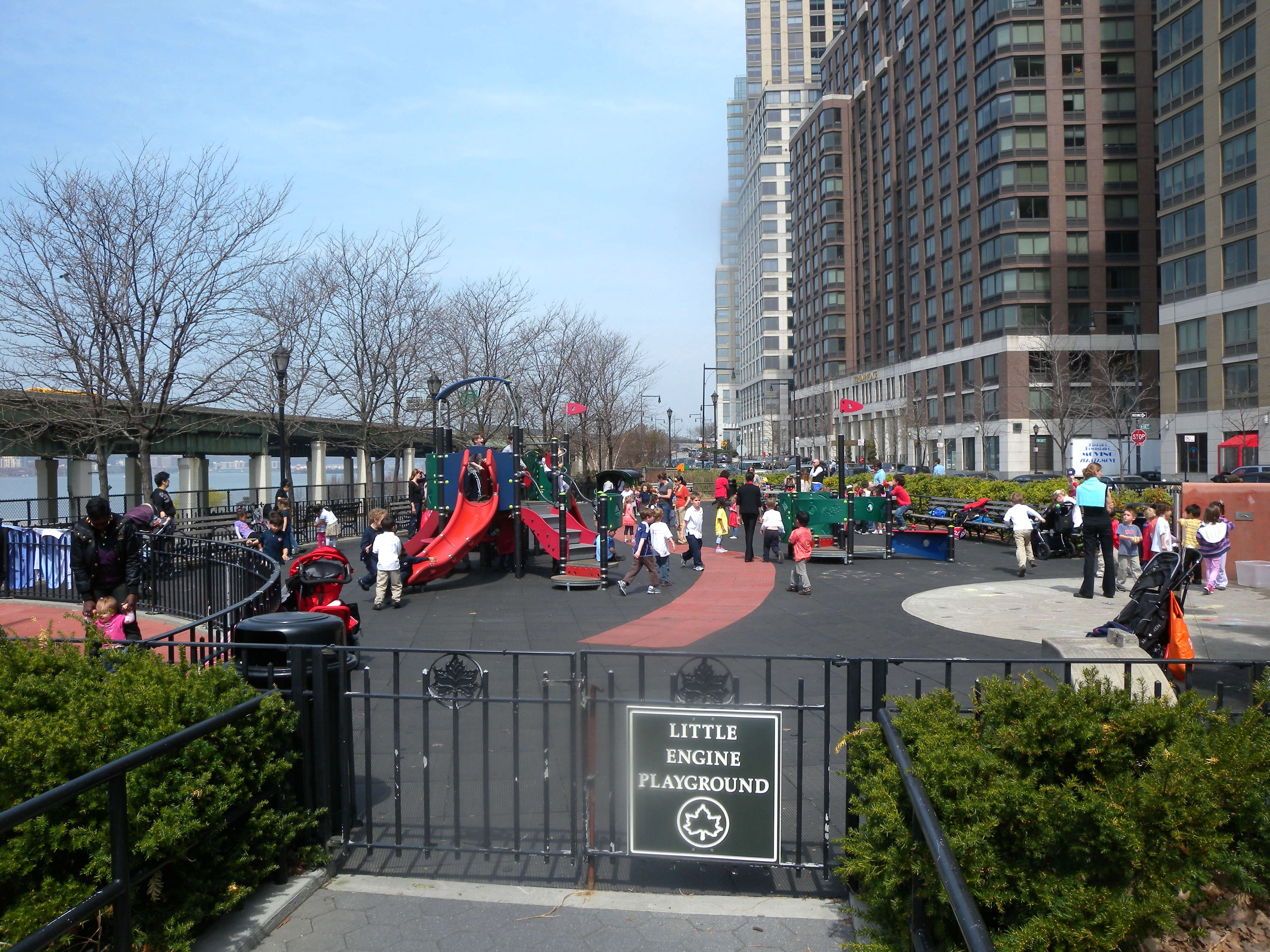 Looking north at playground at the south end of Trump Place on a sunny day.